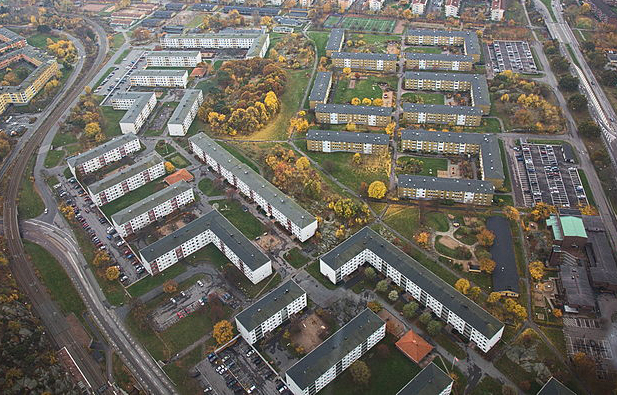 Photo taken on a helicopter over Gothenburg